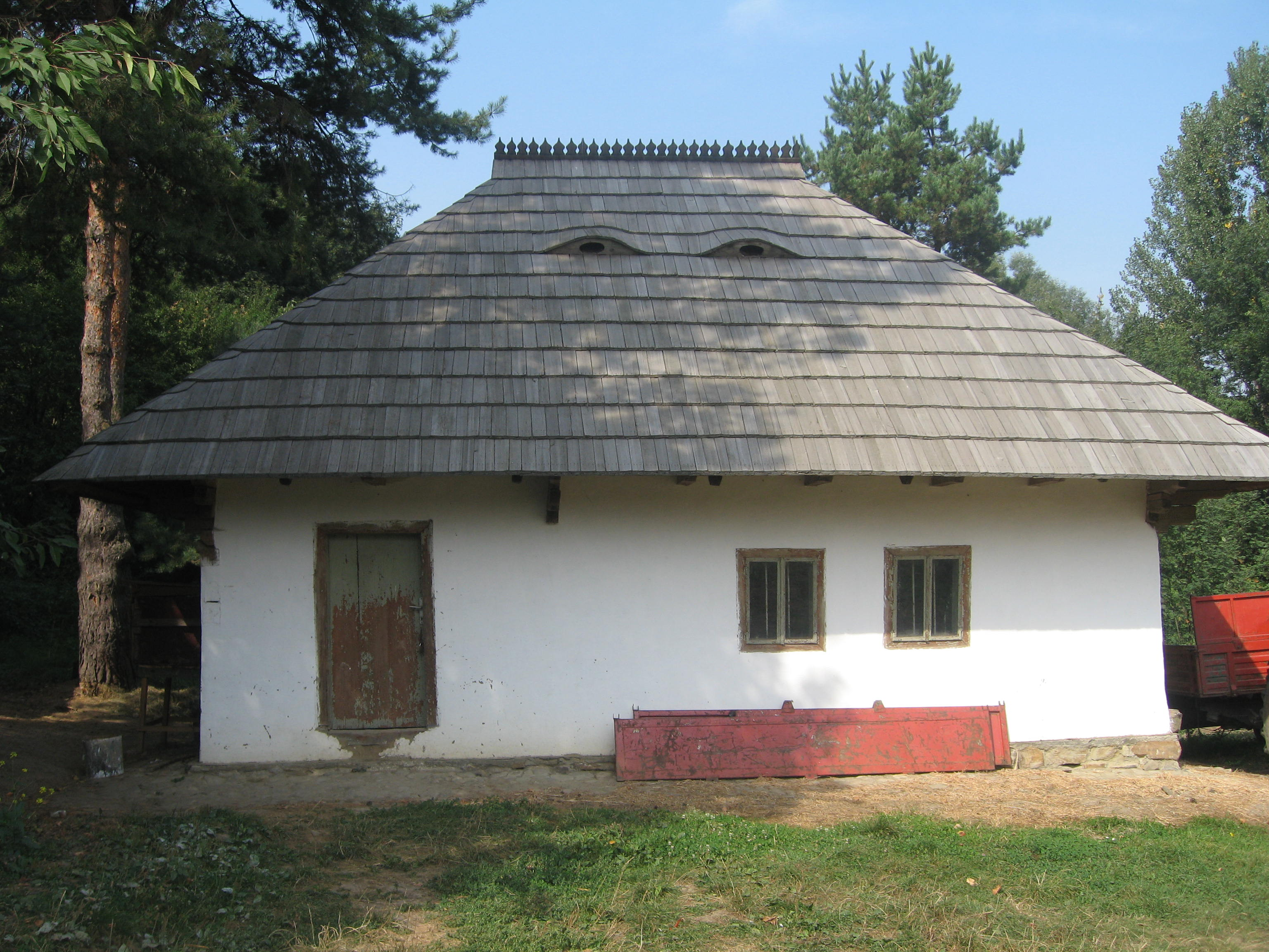 Bukovina Village Museum - The Rădăşeni Household (house), Fălticeni ethnographic area.